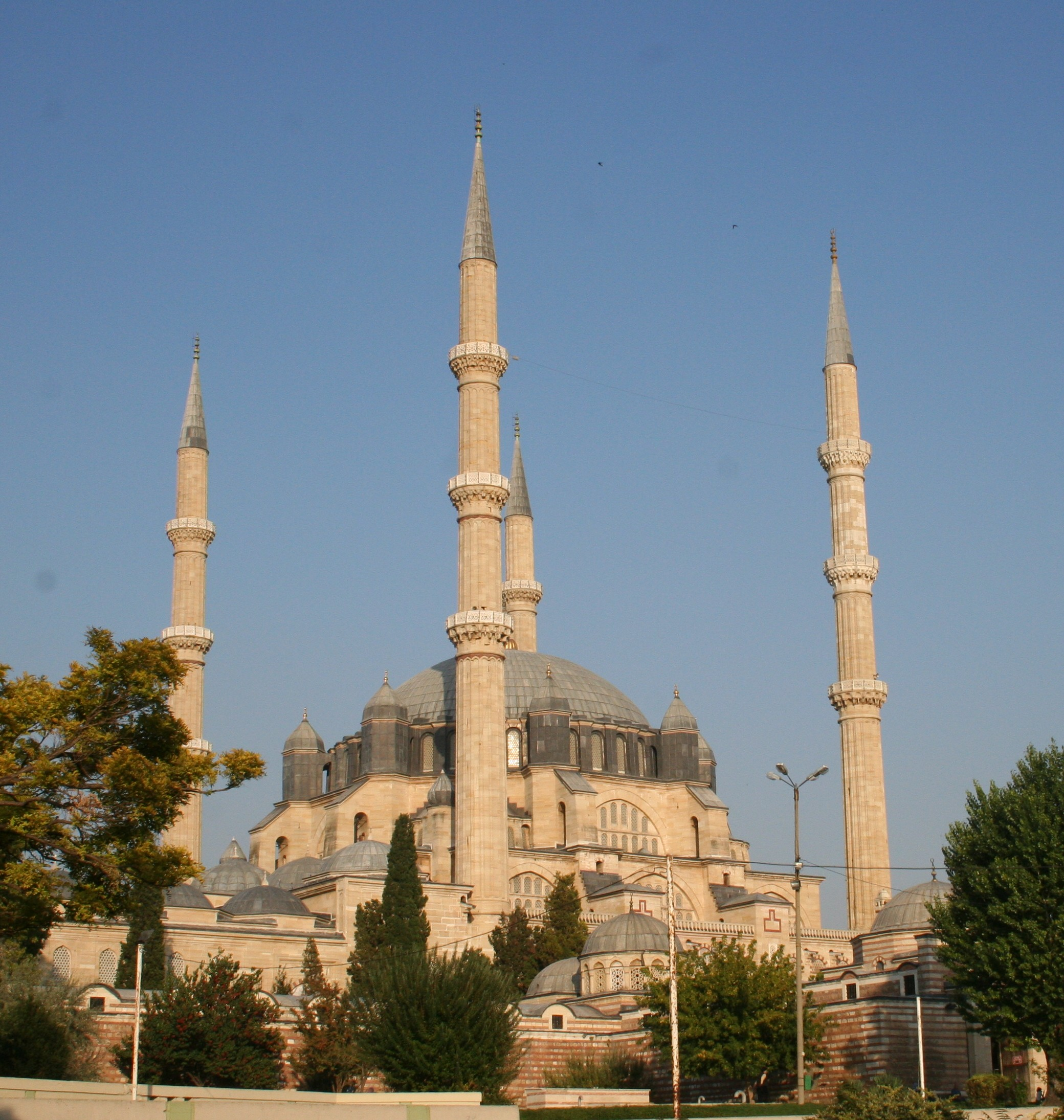 Selimiye Mosque